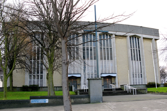 Our Lady of Consolation,Donnycarney, Dublin The basic plan of the church, although modern in design, it was influenced by later medieval churches with its tall pointed windows and arched doorways and its variation in ceiling levels. Described as Modern Gothic and was designed by Mr. T.P. Kennedy B.Arch.